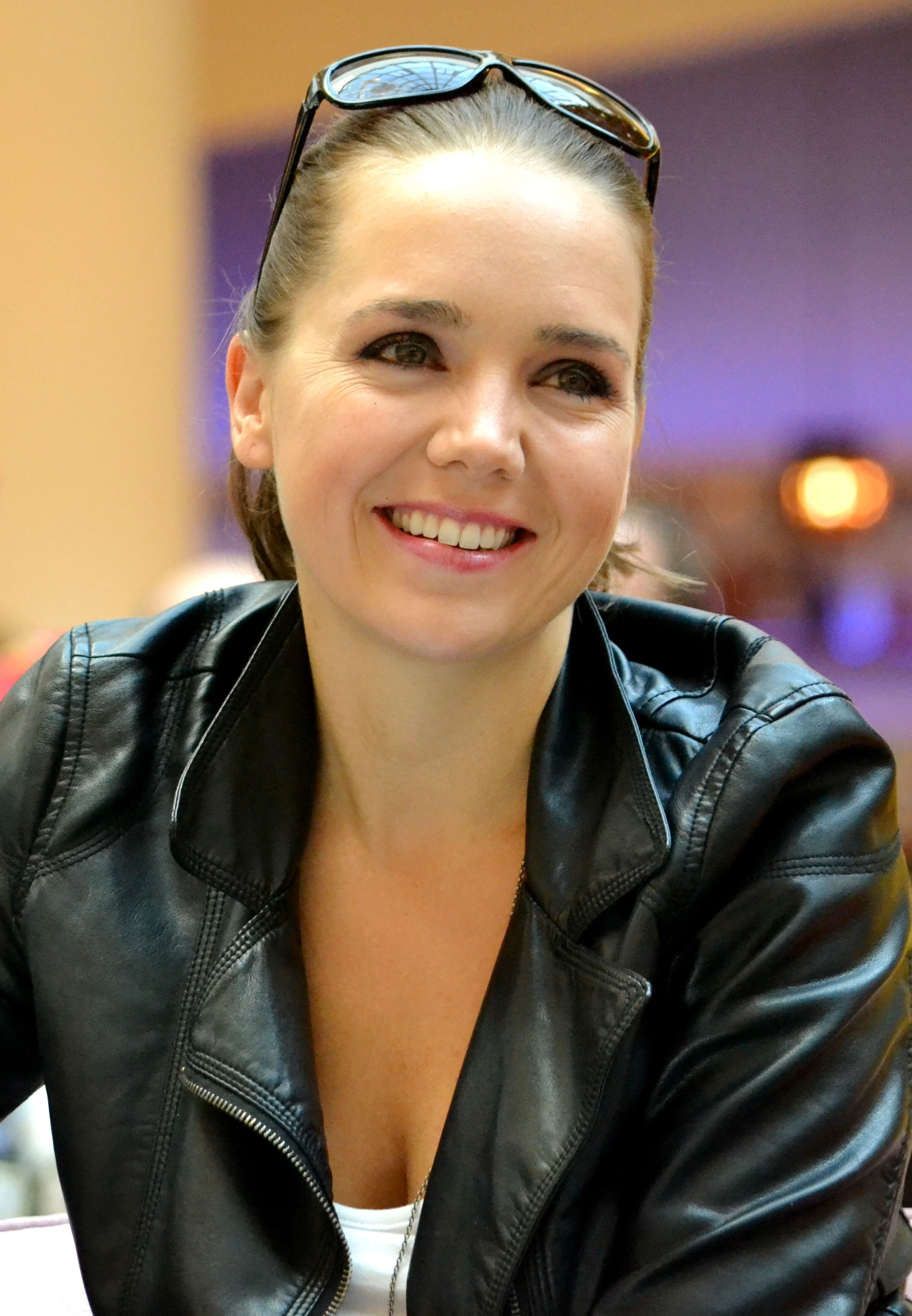 Lucie Vondráčková, Czech vocalist